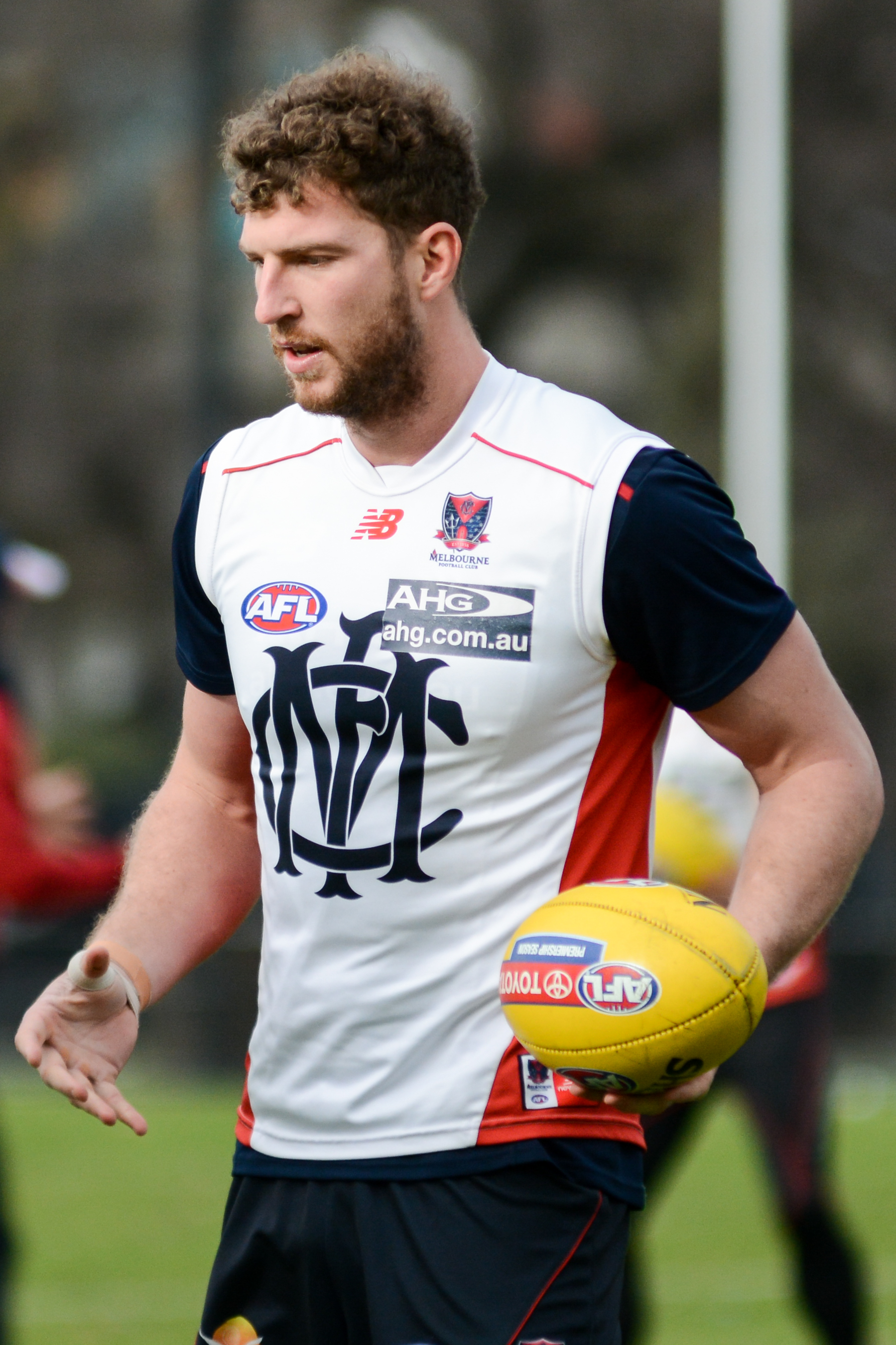 Jake Spencer at training during July 2015